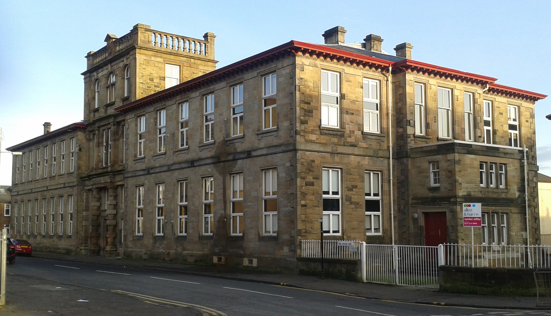 The former main block of Stonelaw High School, Melrose Avenue, Rutherglen. Now private flats.